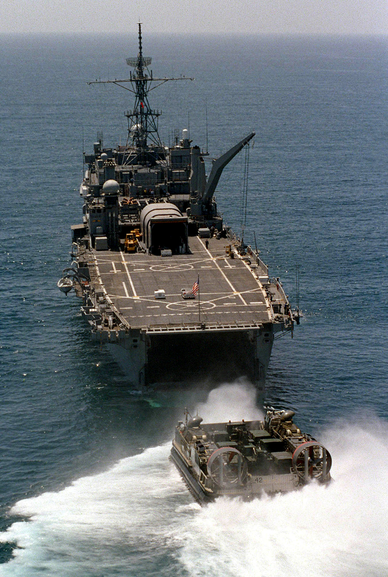 A U.S. Navy Landing Craft Air Cushion lines up to enter the well deck of the USS Denver (LPD 9) off the coast of Camp Pendleton, Calif., on June 24, 1997. The landing craft, or LCAC as it more commonly called, is delivering troops and cargo to the USS Denver during Exercise Kernel Blitz 97. Kernel Blitz 97 is a major amphibious exercise taking place in Southern California and waters offshore. More than 12,000 sailors, Marines, soldiers, guardsmen and airmen are involved in the exercise which is designed to test the Navy-Marine Corps team's ability to project combat power ashore. The LCAC is from Assault Craft Unit 5, Camp Pendleton, Calif. DoD photo by Petty Officer 2nd Class Jeff Viano, U.S. Navy.